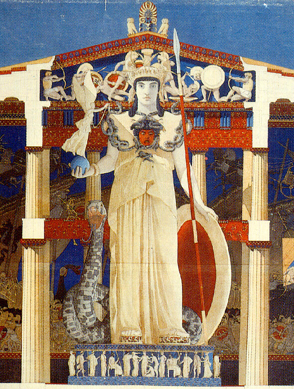 Detail of Benoît-Édouard Loviot's drawing "Parthenon" (cross-section, restored). Reconstruction of a statue of Athena at the Parthenon in Athens. Pierre Lévêque's The Birth of Greece, "Abrams Discoveries" series, Harry N. Abrams, 1994.